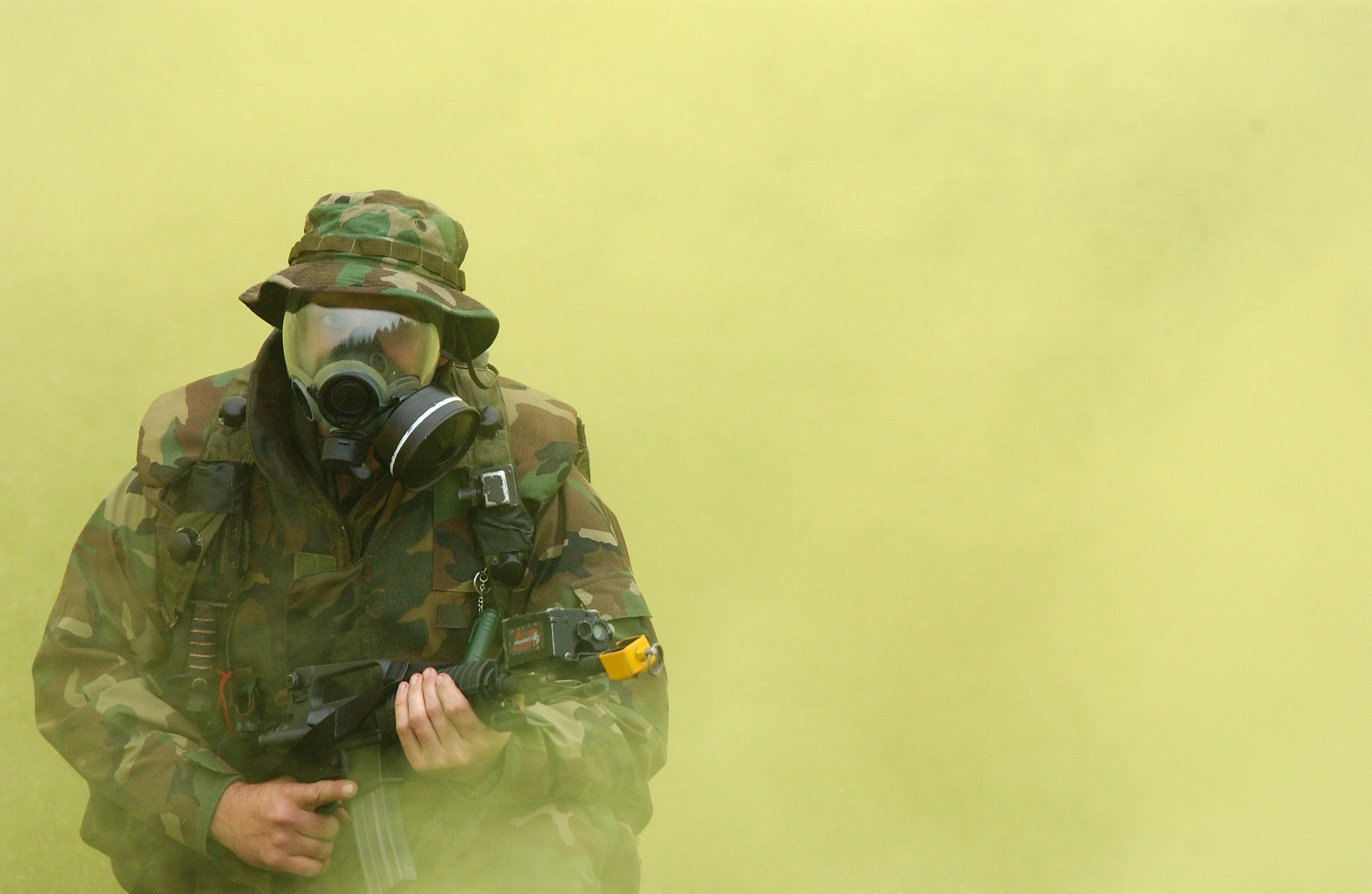 021015-N-6967M-589 Fort A. P. Hill, Va. (Oct. 15, 2002) – Photographer's Mate 1st Class Mike Pendergrass practices donning his gas mask during a field exercise. The five-day training exercise gave participants the opportunities to hone their skills at combat documentation, land navigation, marksmanship, and chemical biological radiological (CBR) defense measures. U.S. Navy photo by Photographer's Mate 1st Class Shane T. McCoy. (RELEASED), US Navy Newsstand photo, PD